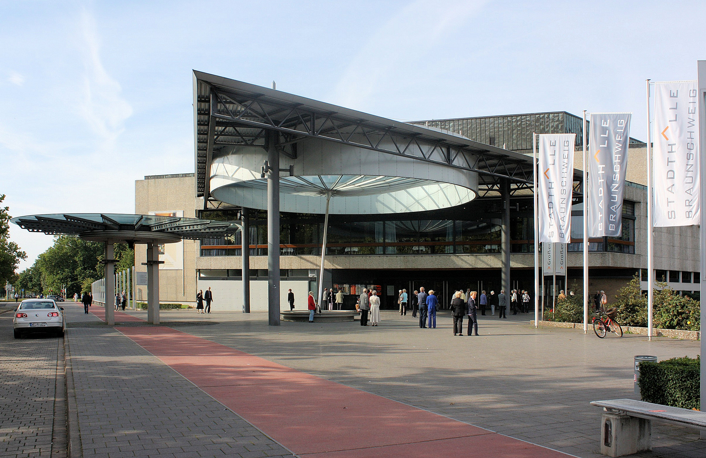 Braunschweig, the Stadthalle